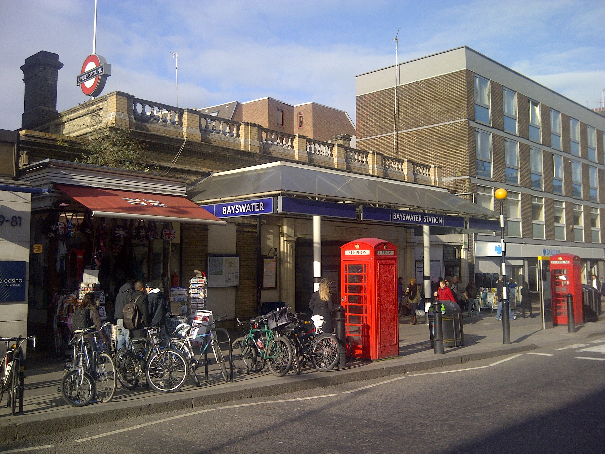 Entrance of the Bayswater Tube station in London, UK (Winter 2013)